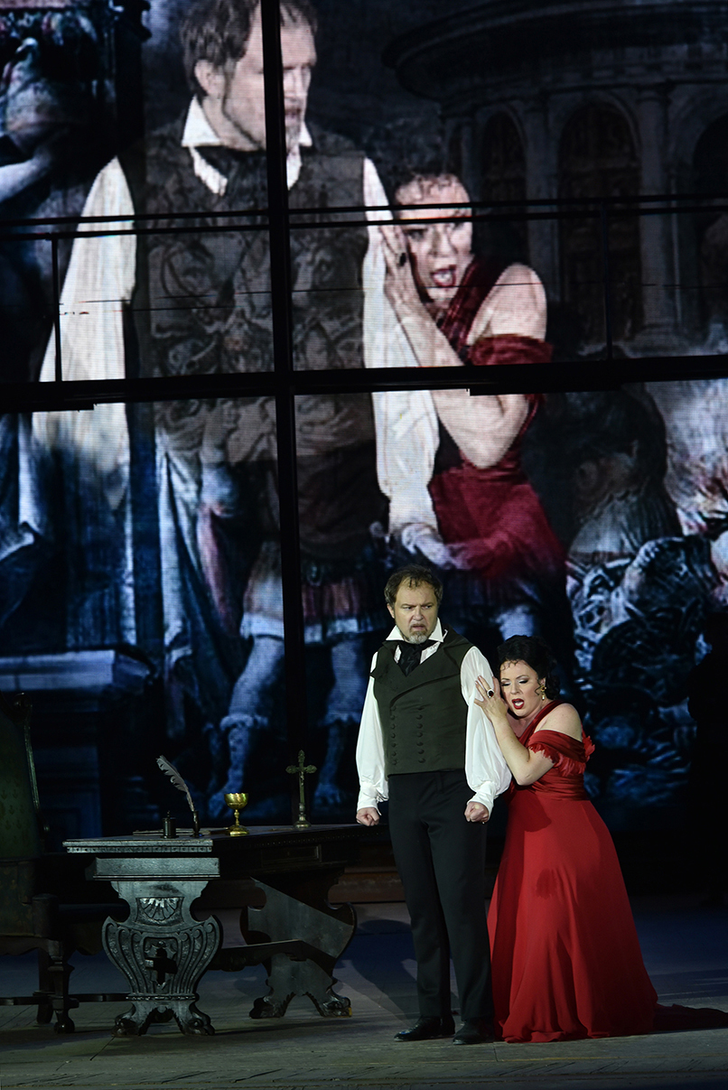 Tosca, Sankt Margarethen, 2015